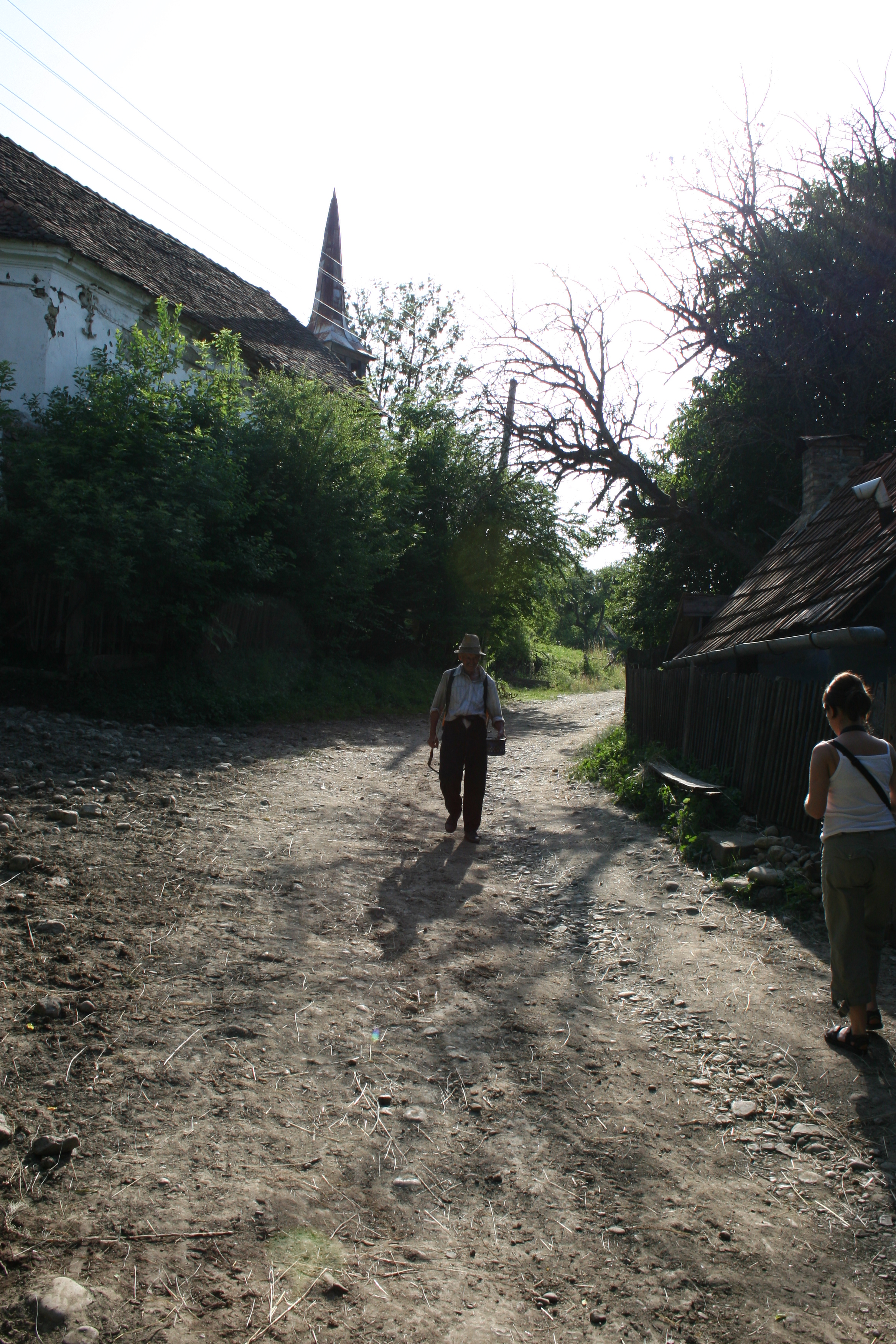 Alexandriţa (hu. Sándortelke) in Harghita county, Transylvania, Romania